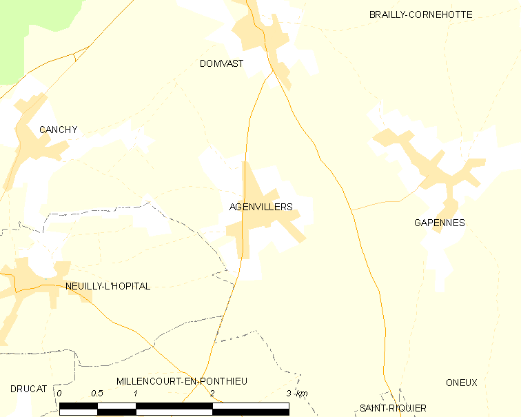 Map of French municipality Agenvillers